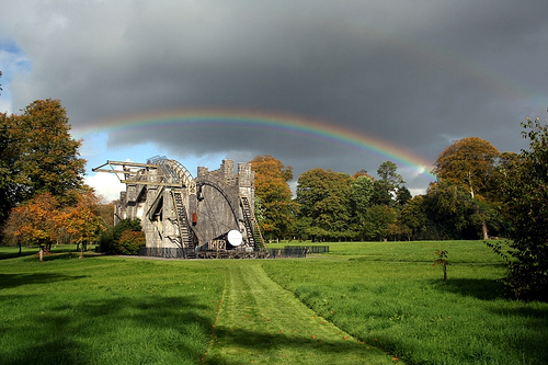 Snap taken by me at the Whirlpool Star Party. Albert White